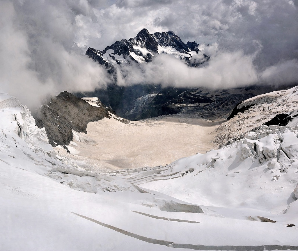 View of Schreckhorn from Eismeer, Switzerland